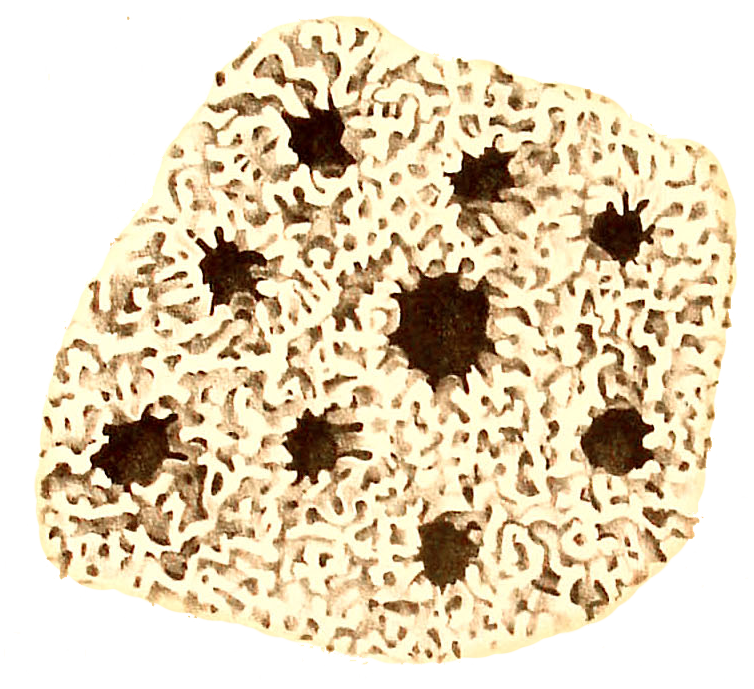 Original description: View of the surface of the ccEnosteum, magnified 80 diameters, showing one complete system of pores, composed of a central gastropore, and eight surrounding smaller dactylopores. Diameter of the central gastropore = 0.25 mm. Largest diameter of the whole group of pores = 1.5 mm. Structures occurring in Millepora nodosa.